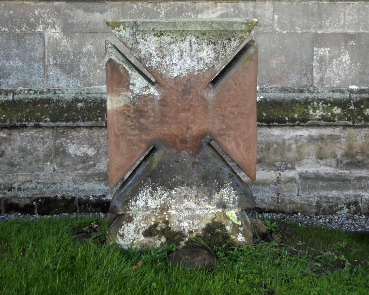 Churchyard headstone cross in the Chrysom graveyard section outside St Bartholomew's parish church, Tong, Shropshire.